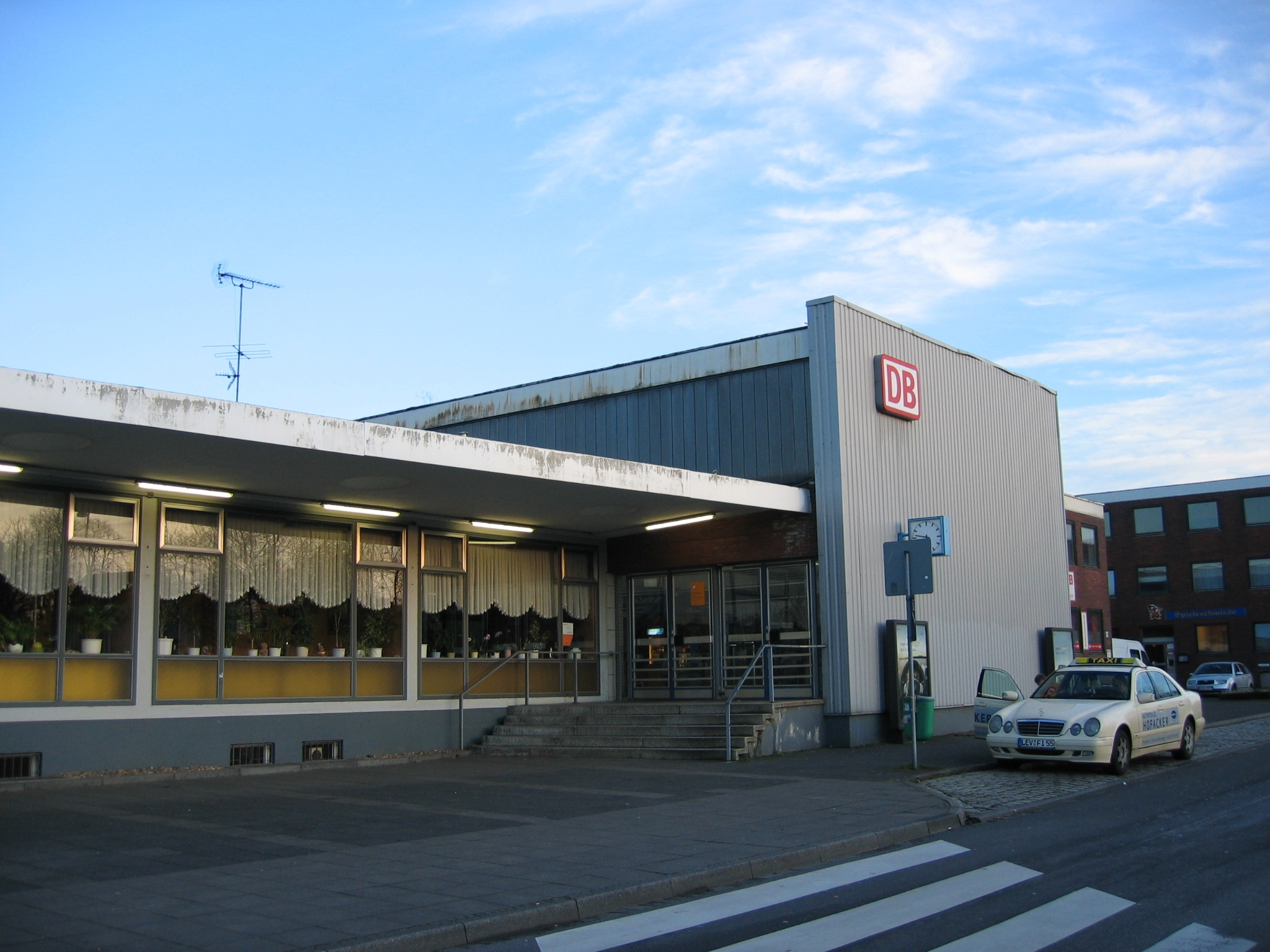 Leverkusen-Opladen station, NRW, Germany